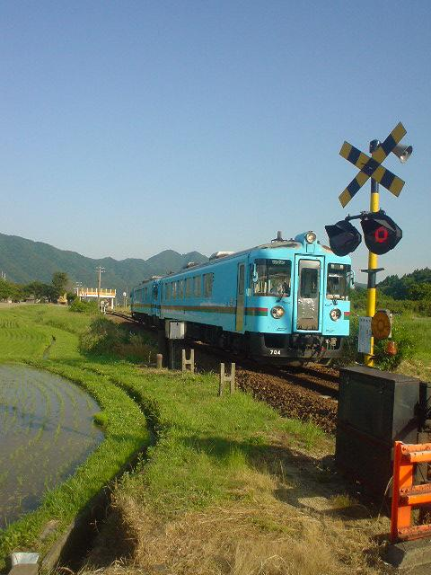 Kitakinki Tango Railway DMU Class KTR 700 (Tango-Yura Station on the Miyazu Line seen from the west of the station)